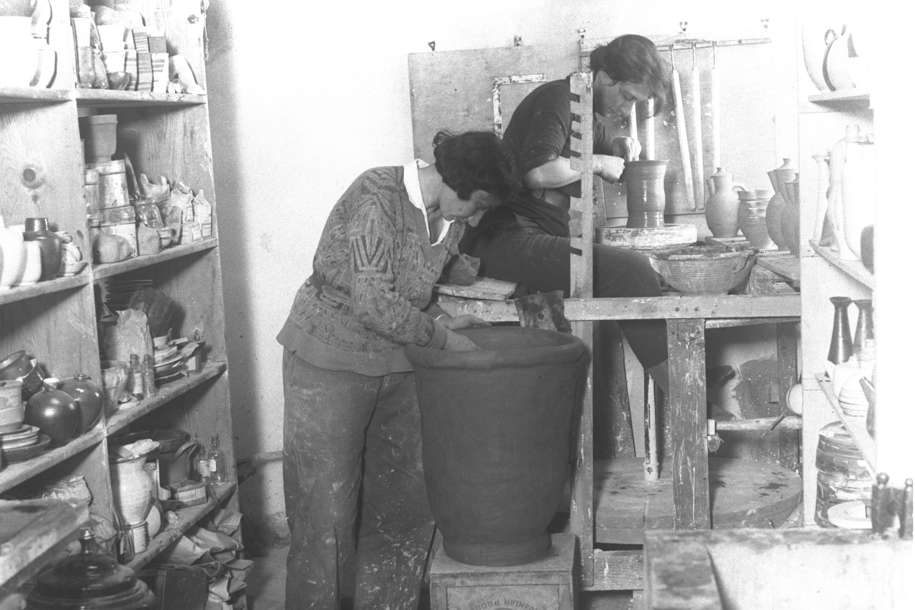 A CERAMICS WORKSHOP IN RISHON LEZION. בית מלאכה לקרמיקה בראשון לציון.